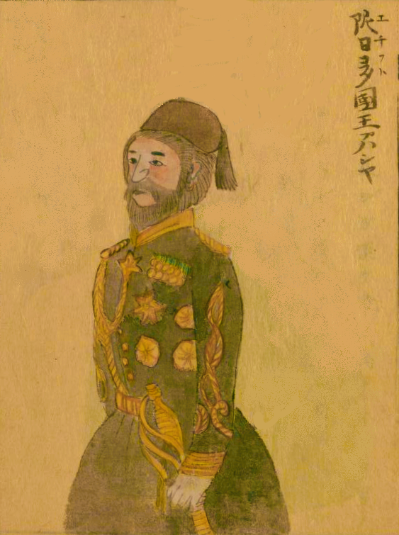 Said Pasha drawn by Takahashi Yūkei, the doctor of the first Japanese Embassy to Europe in 1862